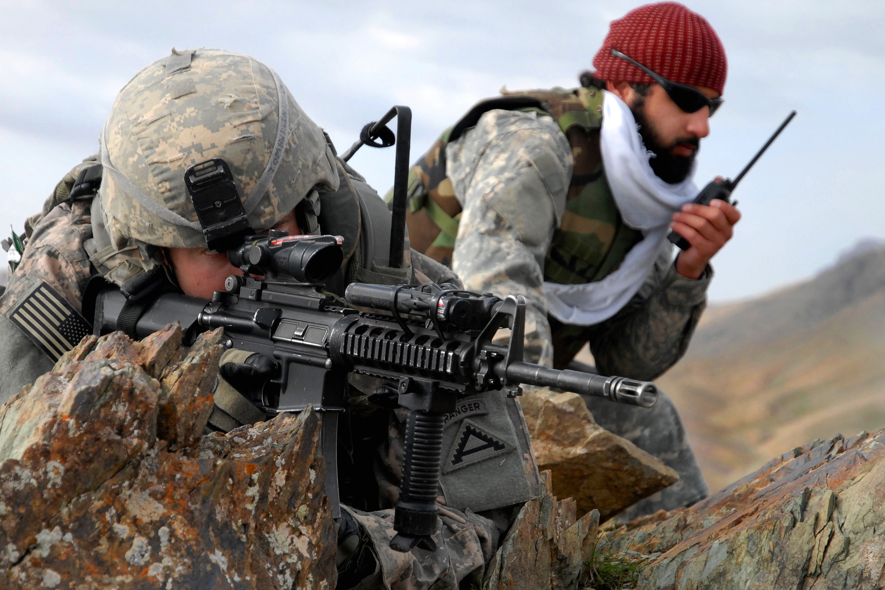 U.S. Army 1st Lt. Jared Tomberlin, left, and an interpreter pull security on top of a mountain ridge during a reconnaissance mission near Forward Operating Base Lane in the Zabul province of Afghanistan Feb. 28, 2009. Tomberlin is assigned to Bravo Company, 1st Battalion, 4th Infantry Regiment.